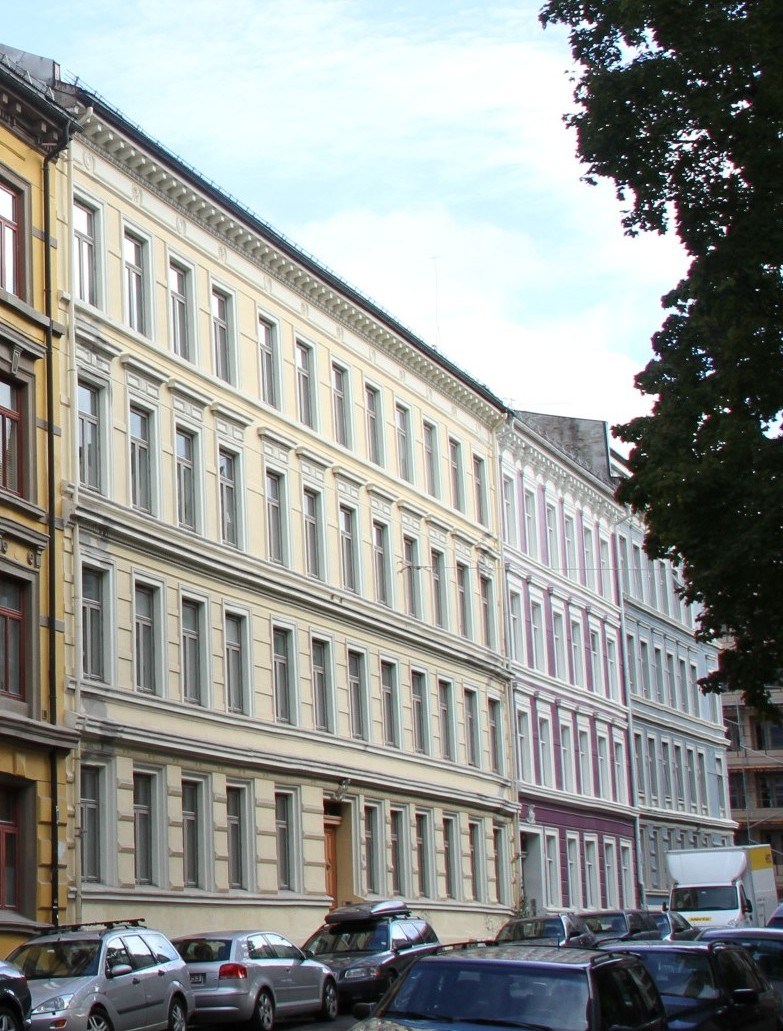 Building/apartment block from 1892 in Arups gate, Gamlebyen in Oslo, Norway. Architect Anselm Liljestrøm.